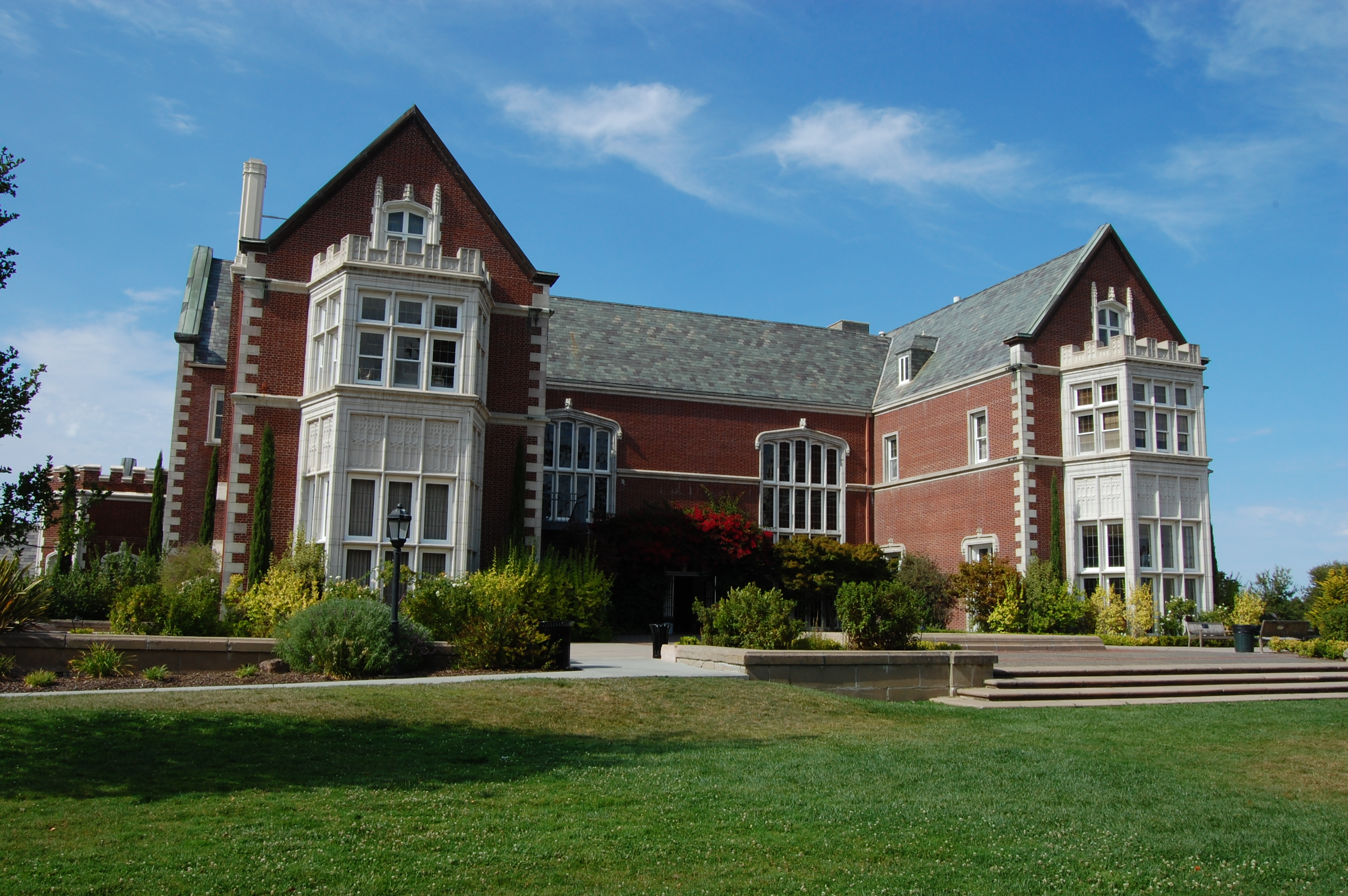 Kohl mansion. 2750 Adeline Drive, Burlingame, California, USA